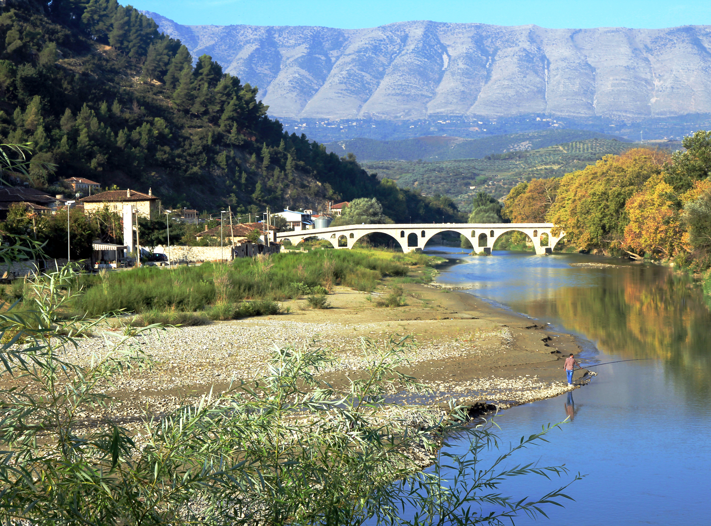 The Gorica Bridge over the river Osum in the town Berat, central Albania, September 2018